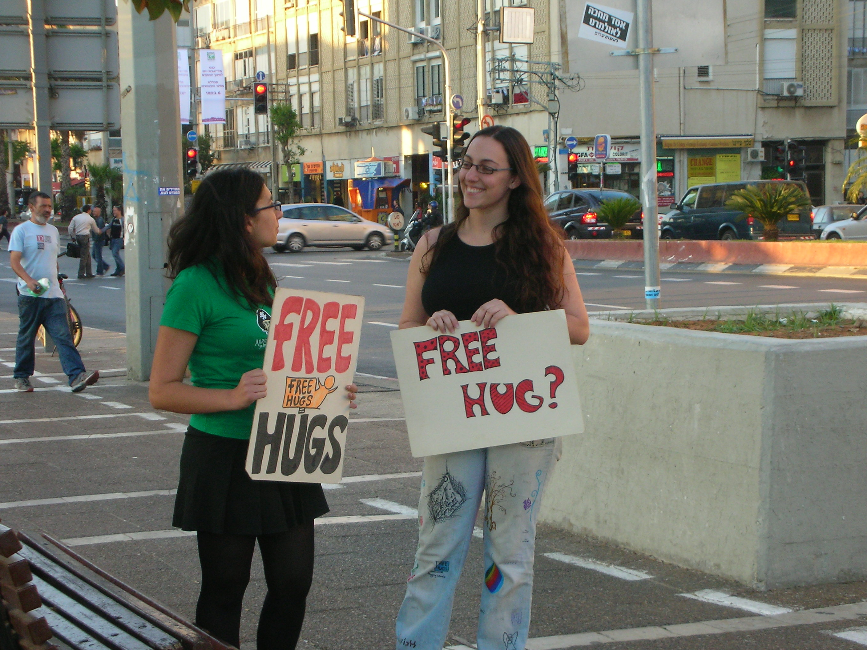 (Free Hugs Campaign)